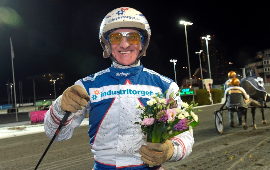 Peter Ingves 2018-12-26 at Solvalla in Stockholm.